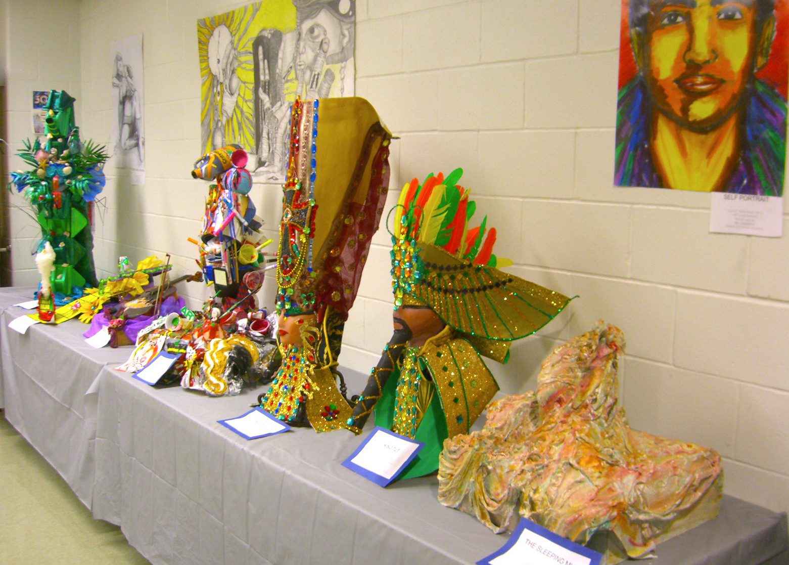 Artwork at the 2010 Union City Multi-Arts Festival, June 4, 2010, at the Union City Performing Arts Center in Union City, New Jersey. Photographed by Luigi Novi. This photo may be used, modified and published for any purpose, only if an easily visible credit to the photographer is placed near the photo in each instance in which it is used. (See licensing information below.) Publication of this photo without this proper attribution constitutes copyright infringement. For more information on my photos, you can contact me here.